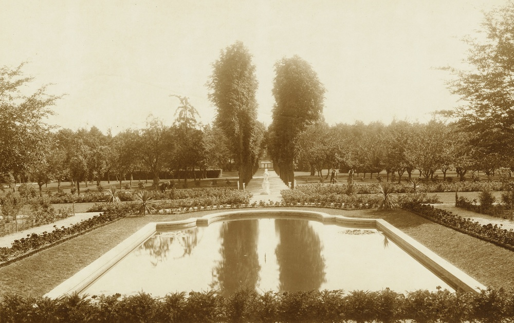 The mansion Heslehøj in Hellerup, outside Copenhagen, Denmark. The photo shows the park that was sold off in 1931/32.